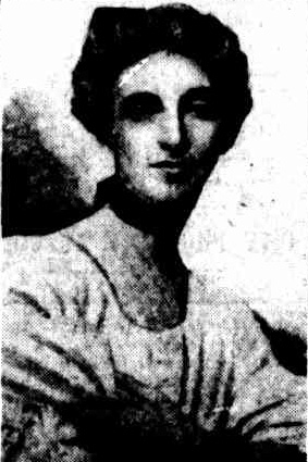 Miss Ellen Pye, Principal of school at Willandra, Ryde